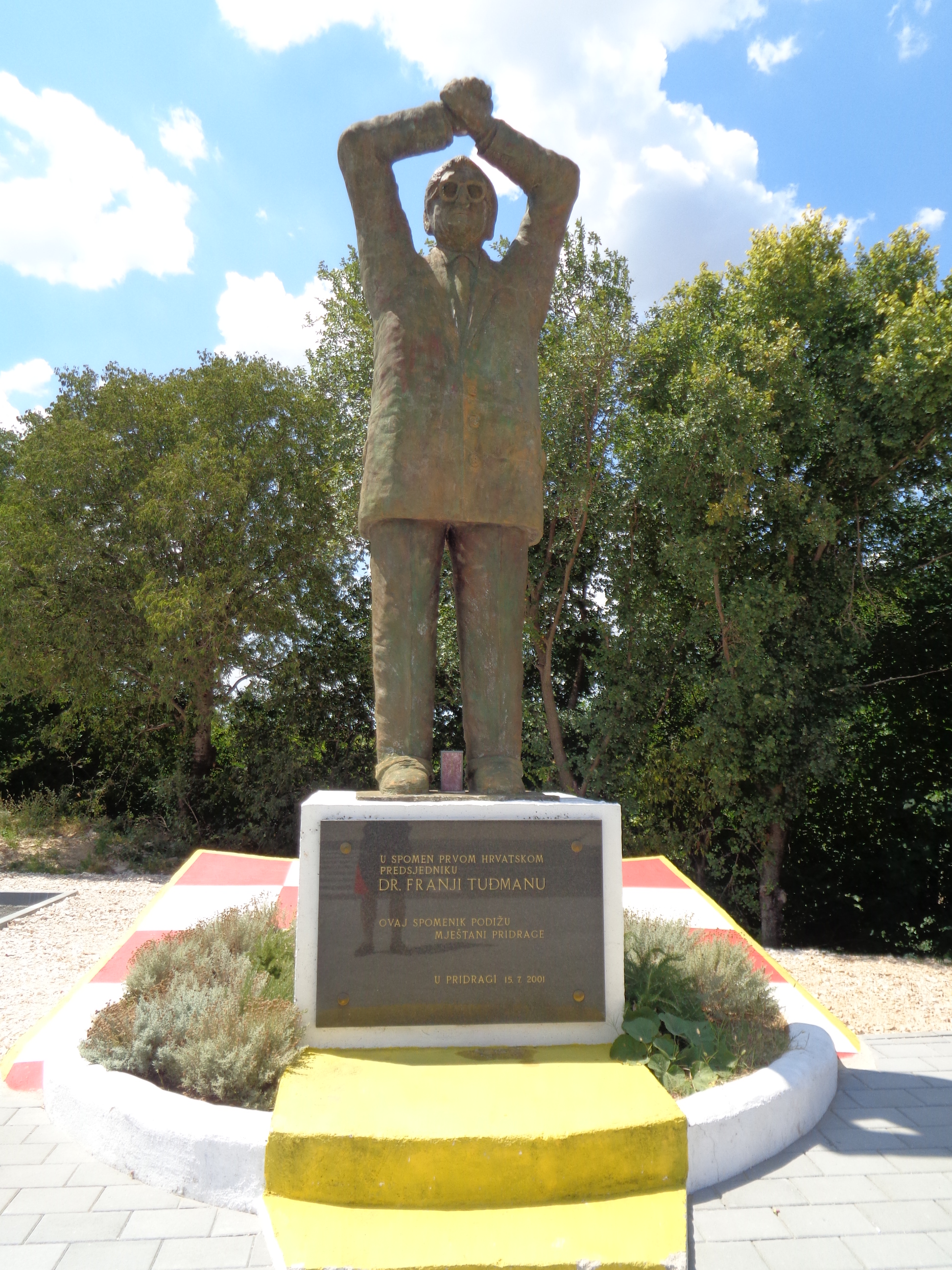 Franjo Tudjman, PhD (1922-1999), First Croatian President - statue in Pridraga, Zadar County, Croatia (east view)